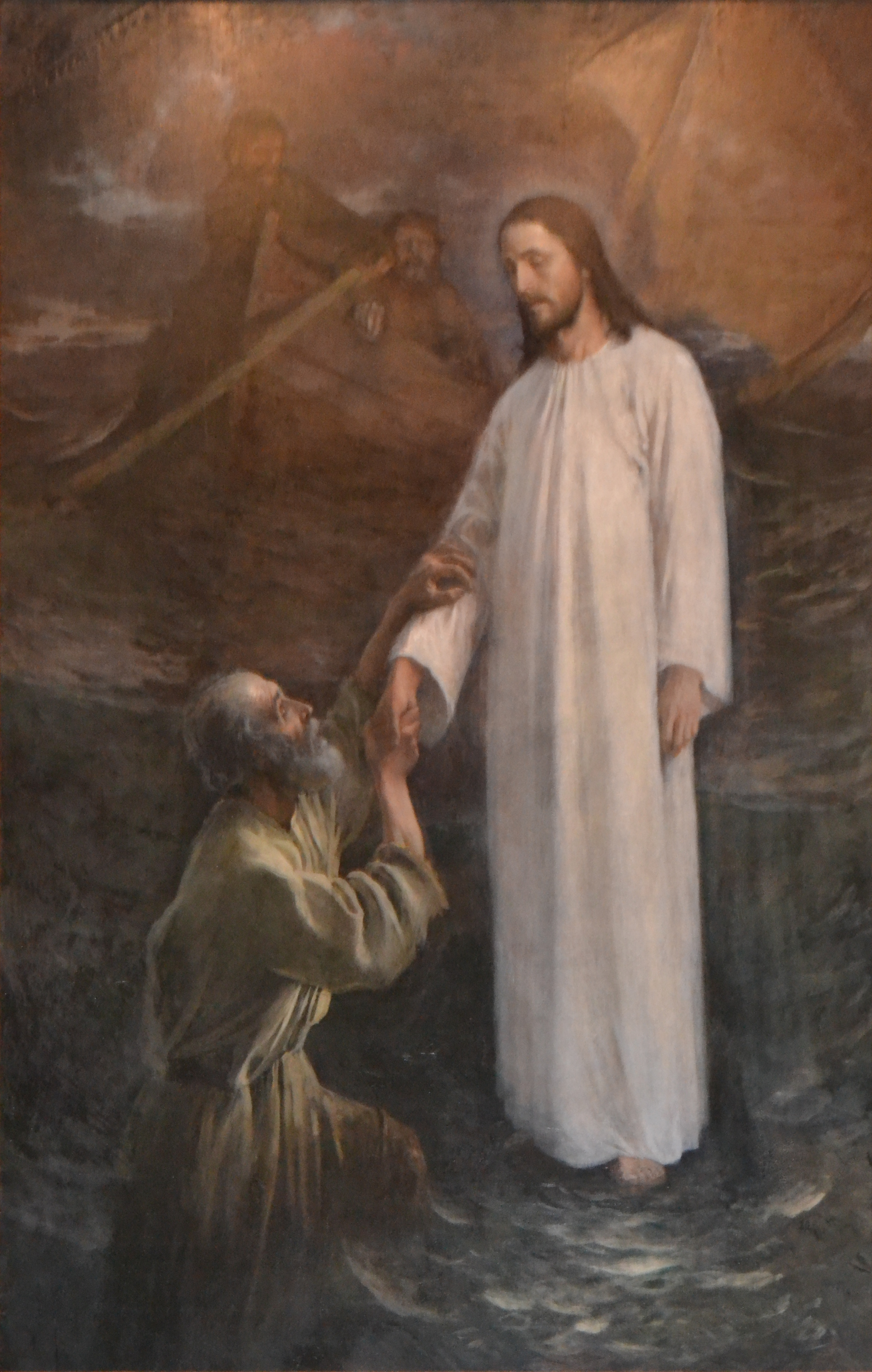 Altar piece of Taulumäki Church in Jyväskylä, Finland